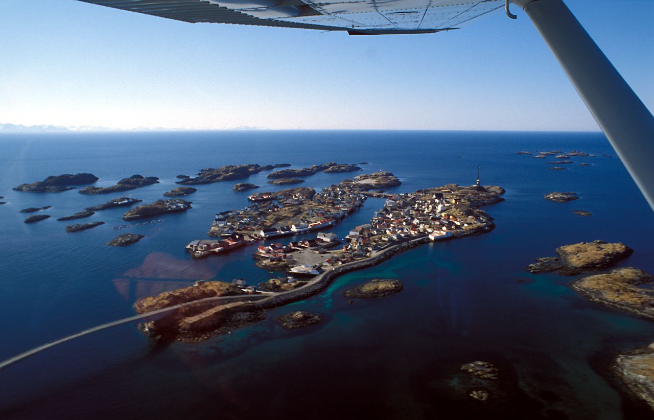 Henningsvær (Norway), seen from the air